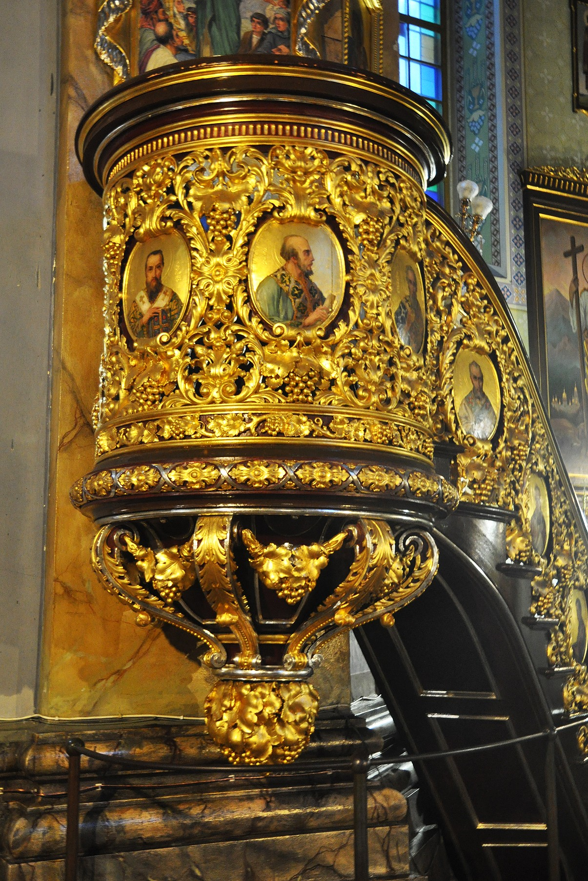 Wooden pulpit in Church of the Transfiguration on the street Krakivska, 21, in Lviv (Ukraine)